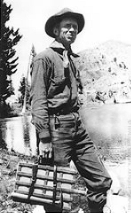 U.S. botanist Willis Linn Jepson (1867–1946) in the Sierra Nevada